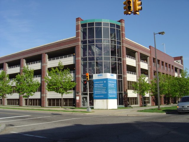 Detroit Medical Center Main Offices.